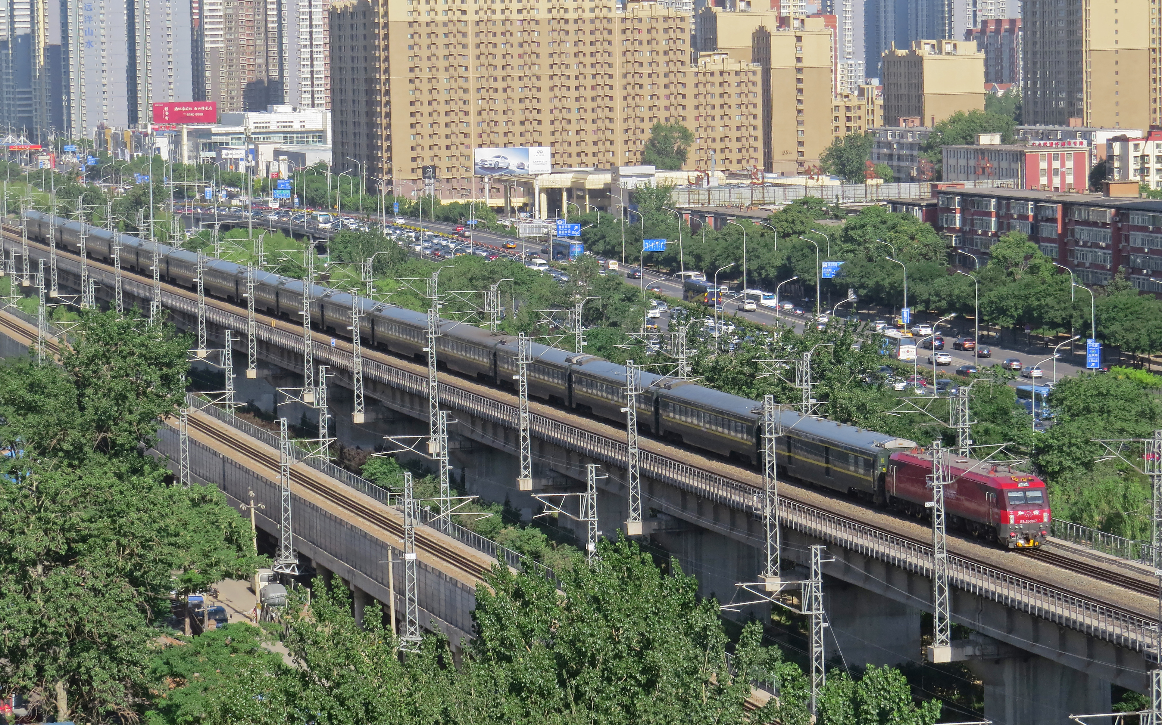 Z2 from Changsha, hauled by HXD3D-0367.